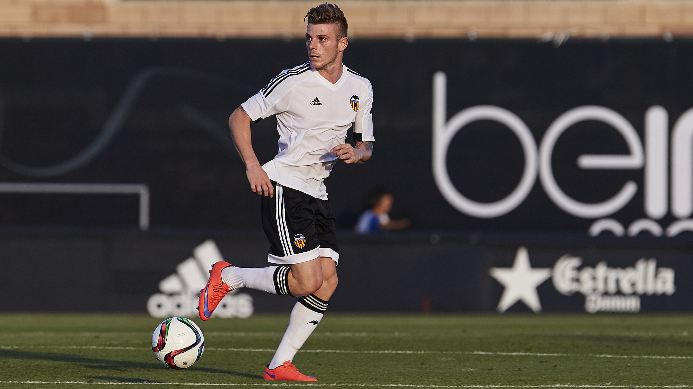 Diego caballo playing